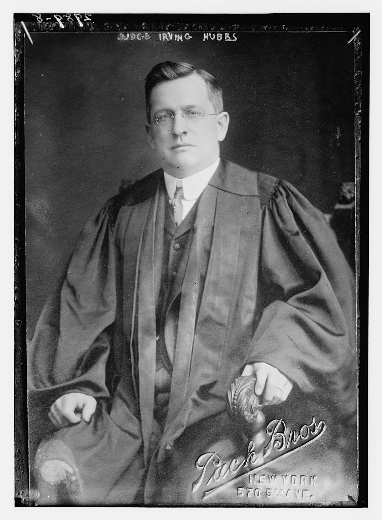 Bain News Service,, publisher. Judge Irving G. Hubbs [between ca. 1910 and ca. 1915] 1 negative : glass ; 5 x 7 in. or smaller. Notes: Title from unverified data provided by the Bain News Service on the negatives or caption cards. Forms part of: George Grantham Bain Collection (Library of Congress). Format: Glass negatives. Repository: Library of Congress, Prints and Photographs Division, Washington, D.C. 20540 USA, General information about the Bain Collection is available at Persistent URL: Call Number: LC-B2- 2989-8